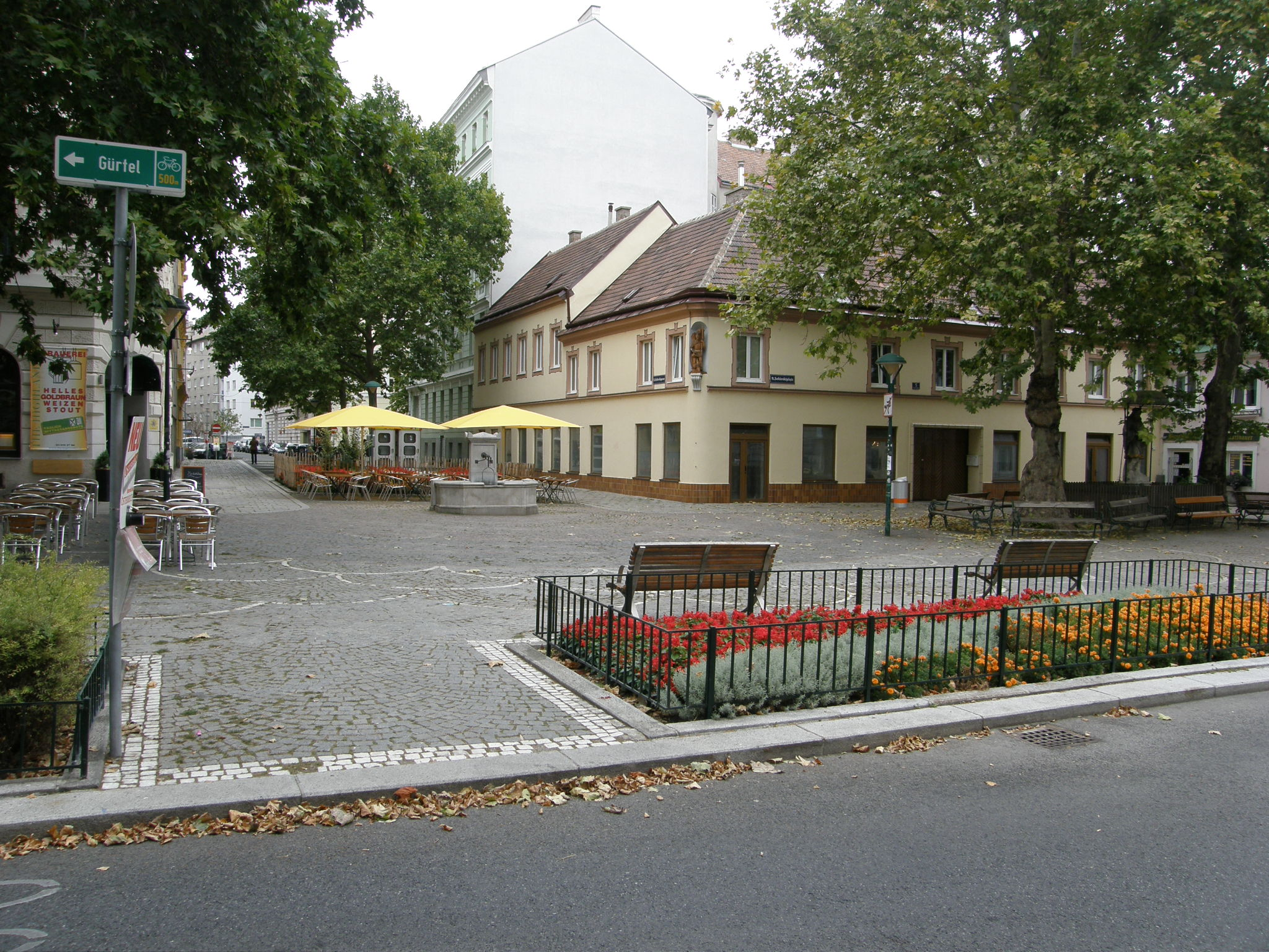 The Sobieski place in Wienna